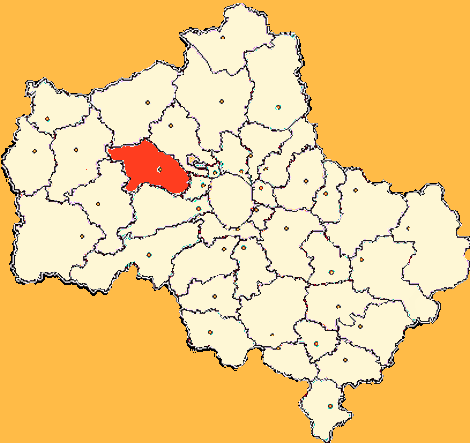 Moscow Region map by Al Silonov